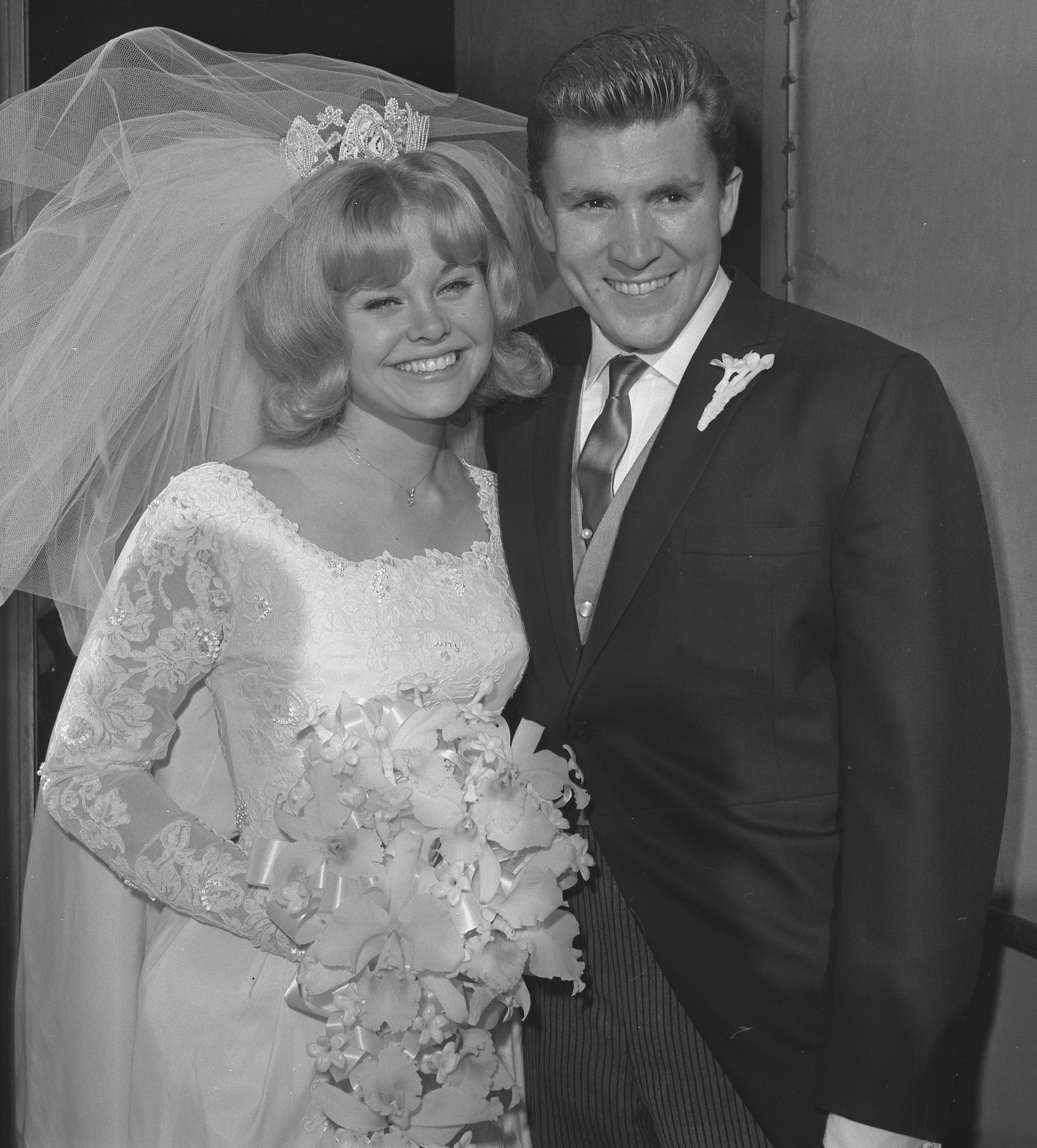 NEWLYWEDS-Lance Reventlow and his bride, actress Cheryl Holdridge, make a handsome pair at Westwood Community Methodist Church after their wedding before 600 invited guests. They planned a month-long Hawaii honeymoon.